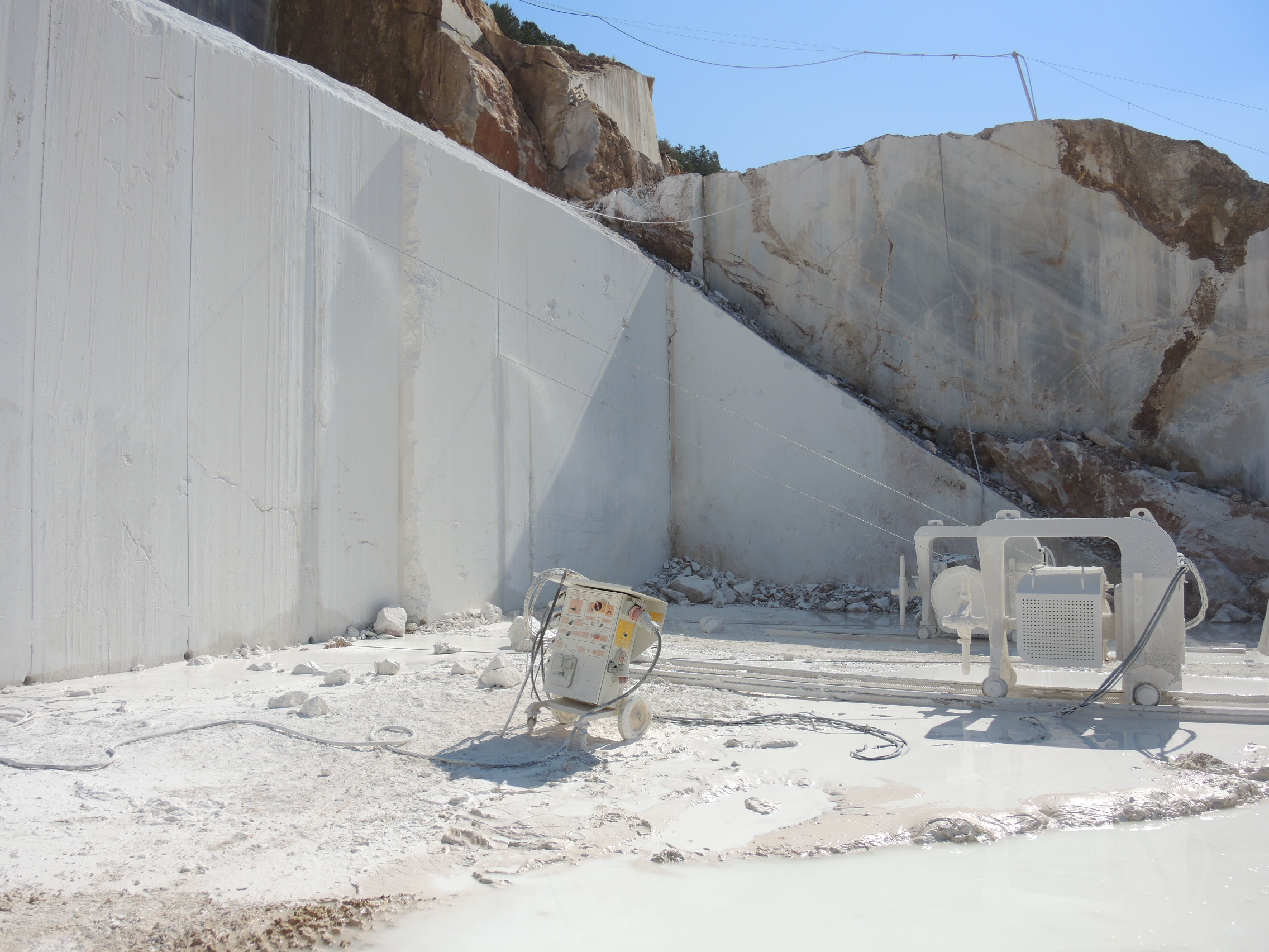 Diamond Wire for marble mining